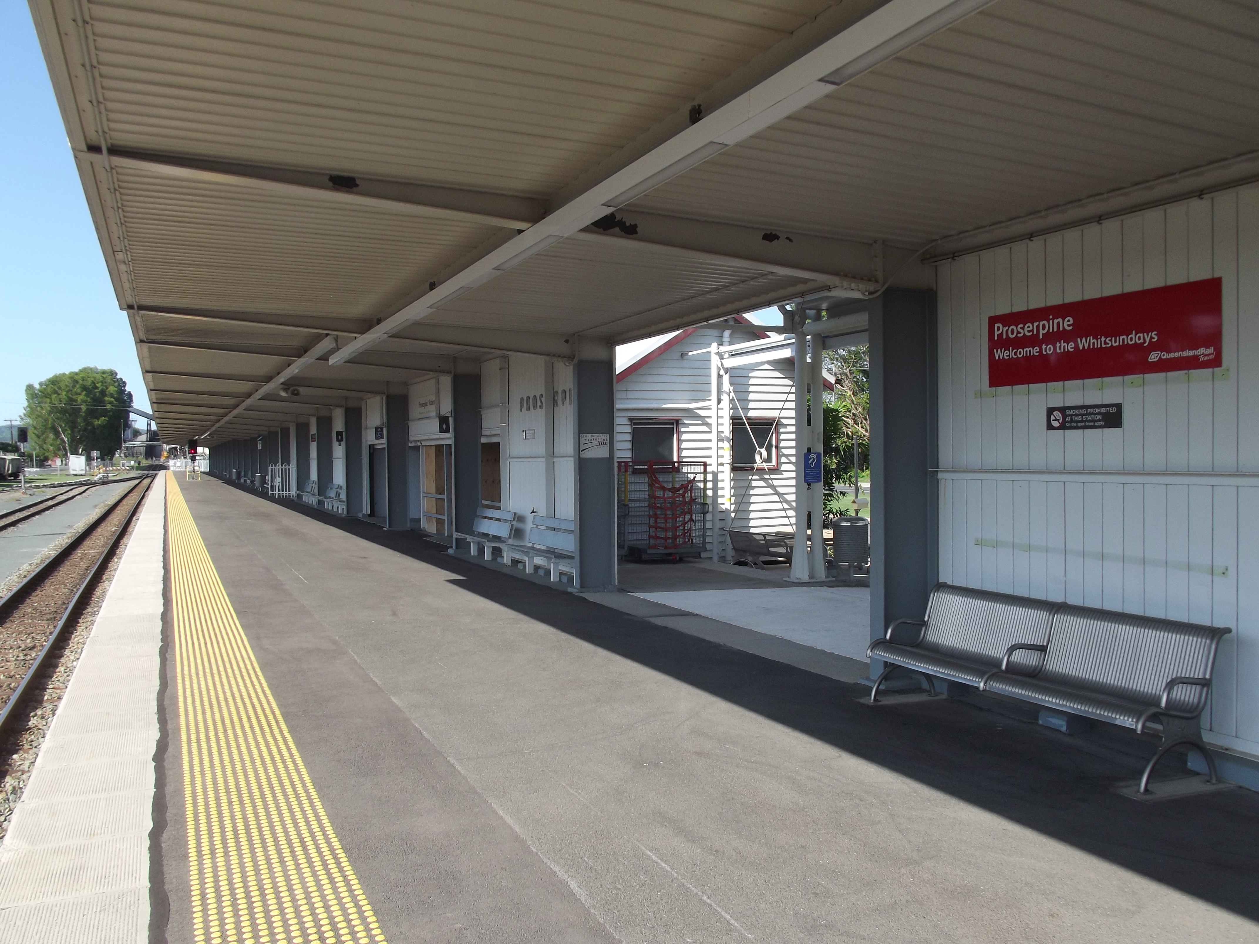 Proserpine railway station, a major stop on the North Coast line.